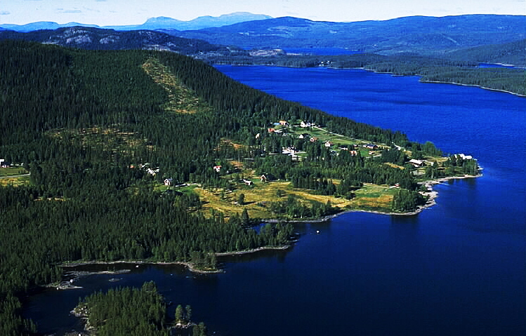 Svaningen and Svaningssjön in Strömsunds municipality, Jämtland county, Sweden